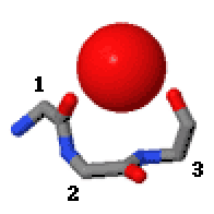 The red sphere shows the oxygen of a water molecule. The sticks show the mainchain atoms of the tripeptide niche. Oxygen red; nitrogen blue and carbon grey. Hydrogen atoms are not shown. Two hydrogen bonds are present, both involving the water molecule; one is with the CO of residue 1; the other is with the CO of residue 3.